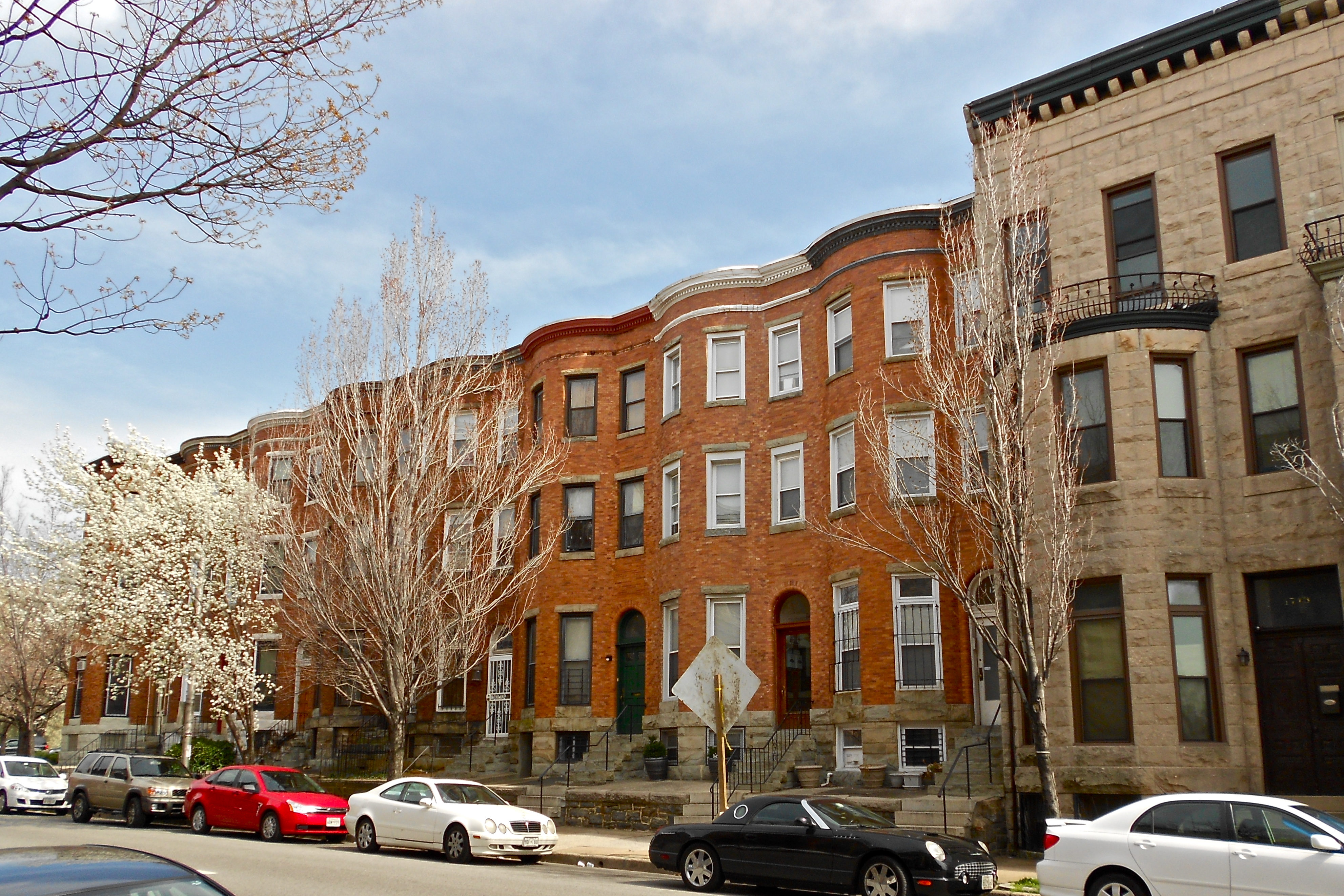 Buildings on St. Paul Street part of the NRHP Historic District "Buildings at 1601-1830 St. Paul Street and 12-20 E. Lafayette Street" on the NRHP since December 27, 1984 in central Baltimore, Maryland just north of the train station.